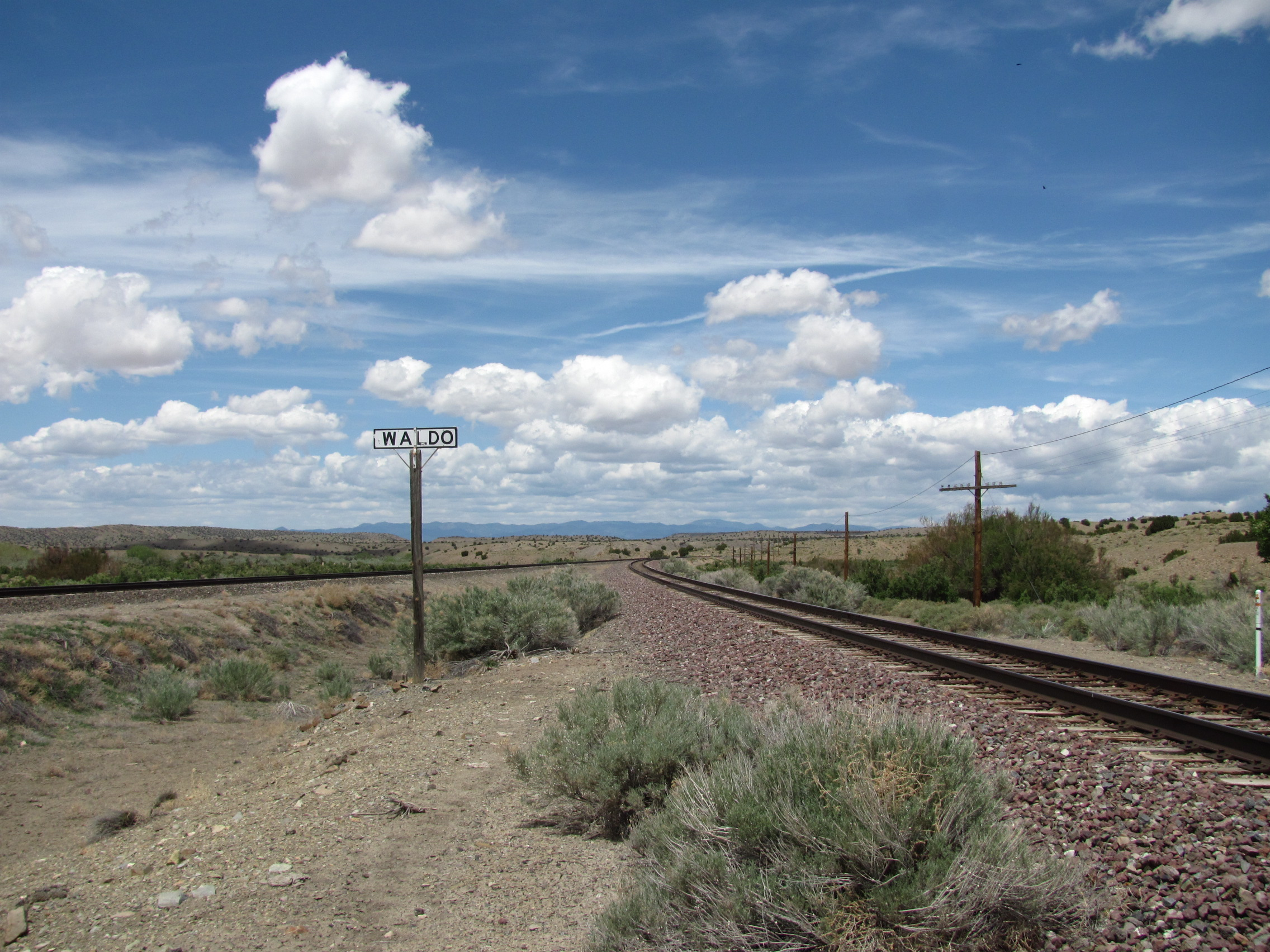 Waldo sign along the BNSF Railroad Tracks, Waldo New Mexico, May 2010